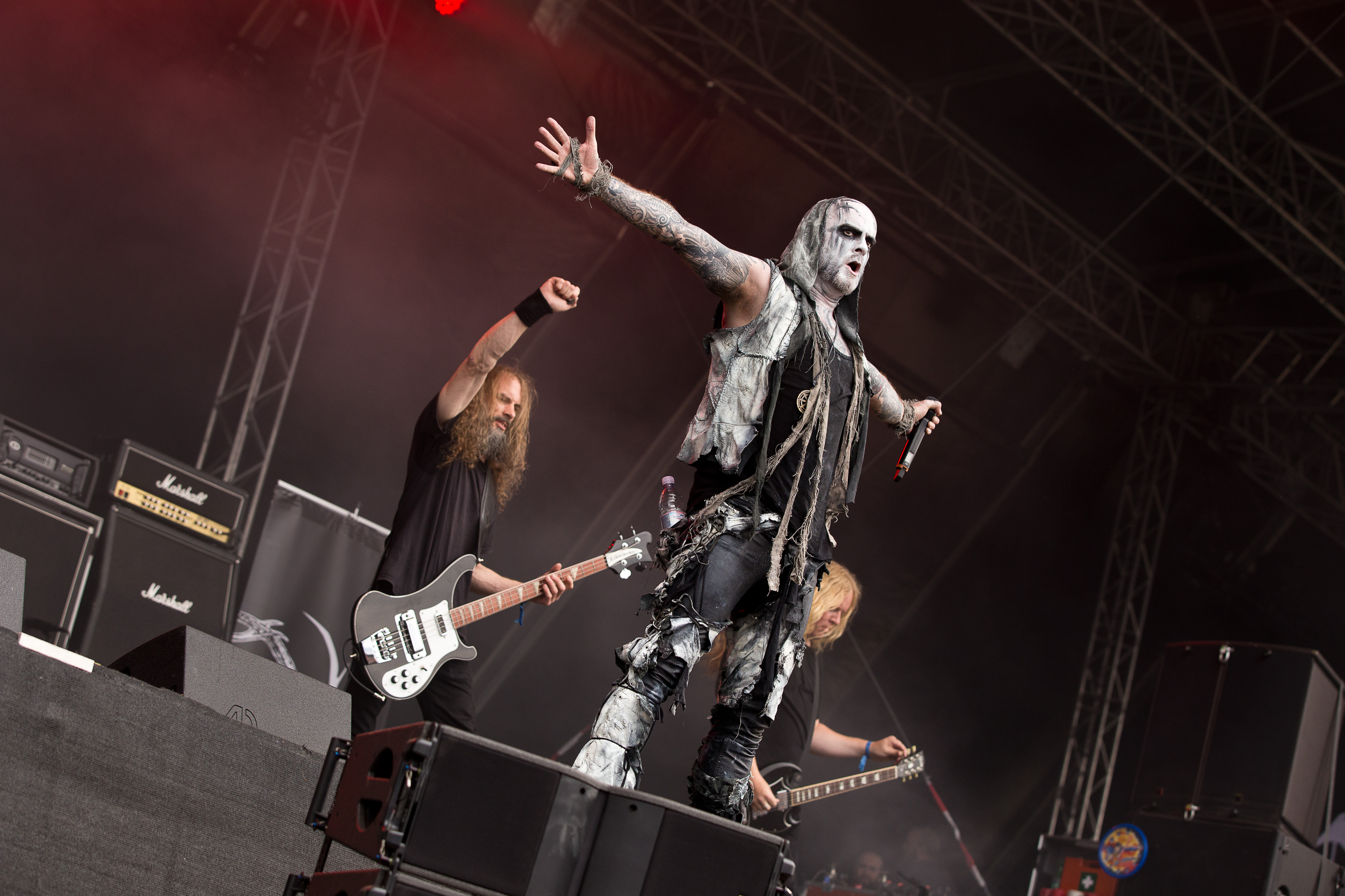 The Irish pagan metal band Primordial at the Rockharz Open Air 2016 in Ballenstedt/Germany.